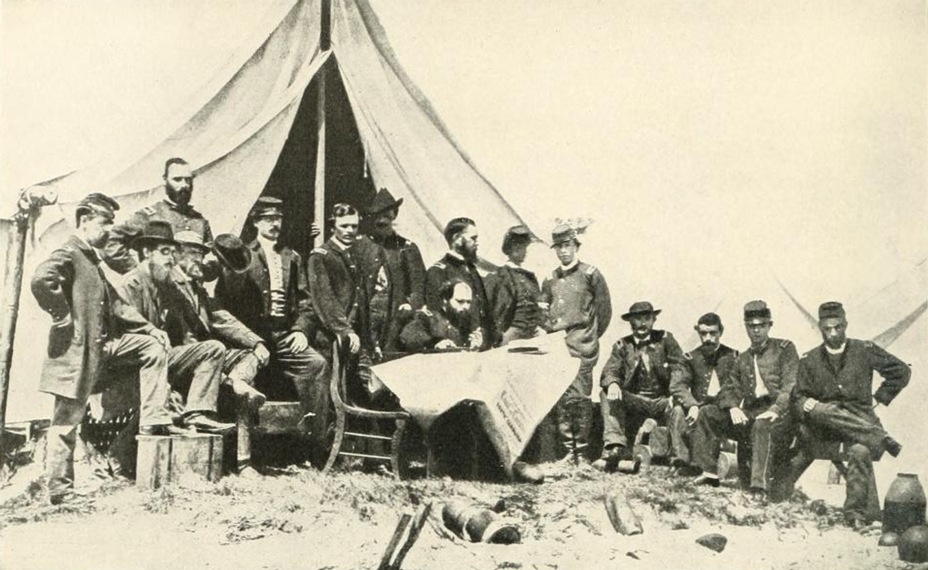 Union General Quincy Adams Gillmore studies Charleston Harbor on a map of the South Carolina coast while posing for this photo in 1863